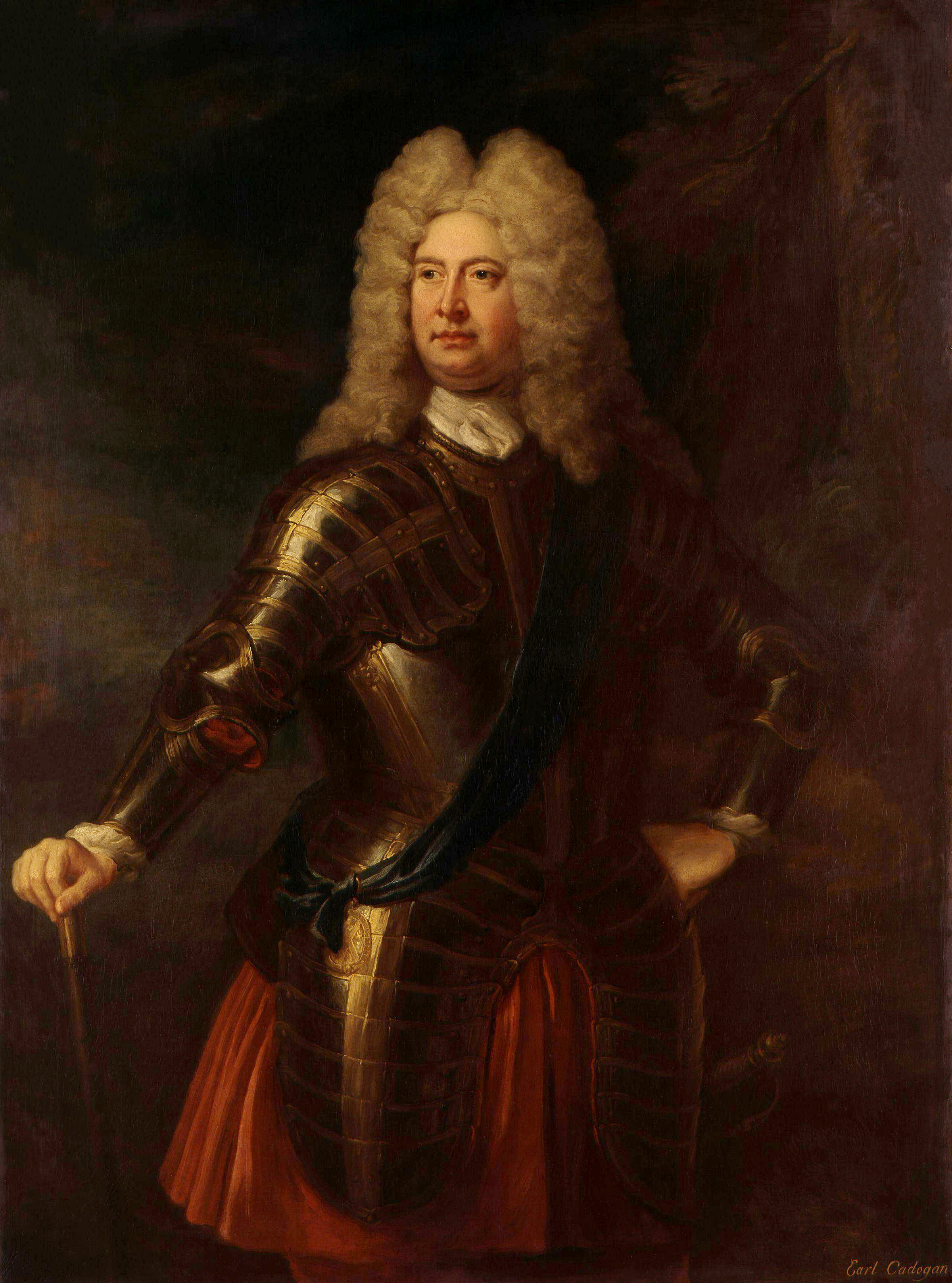 Portrait of William Cadogan, 1st Earl Cadogan (1675-1726)